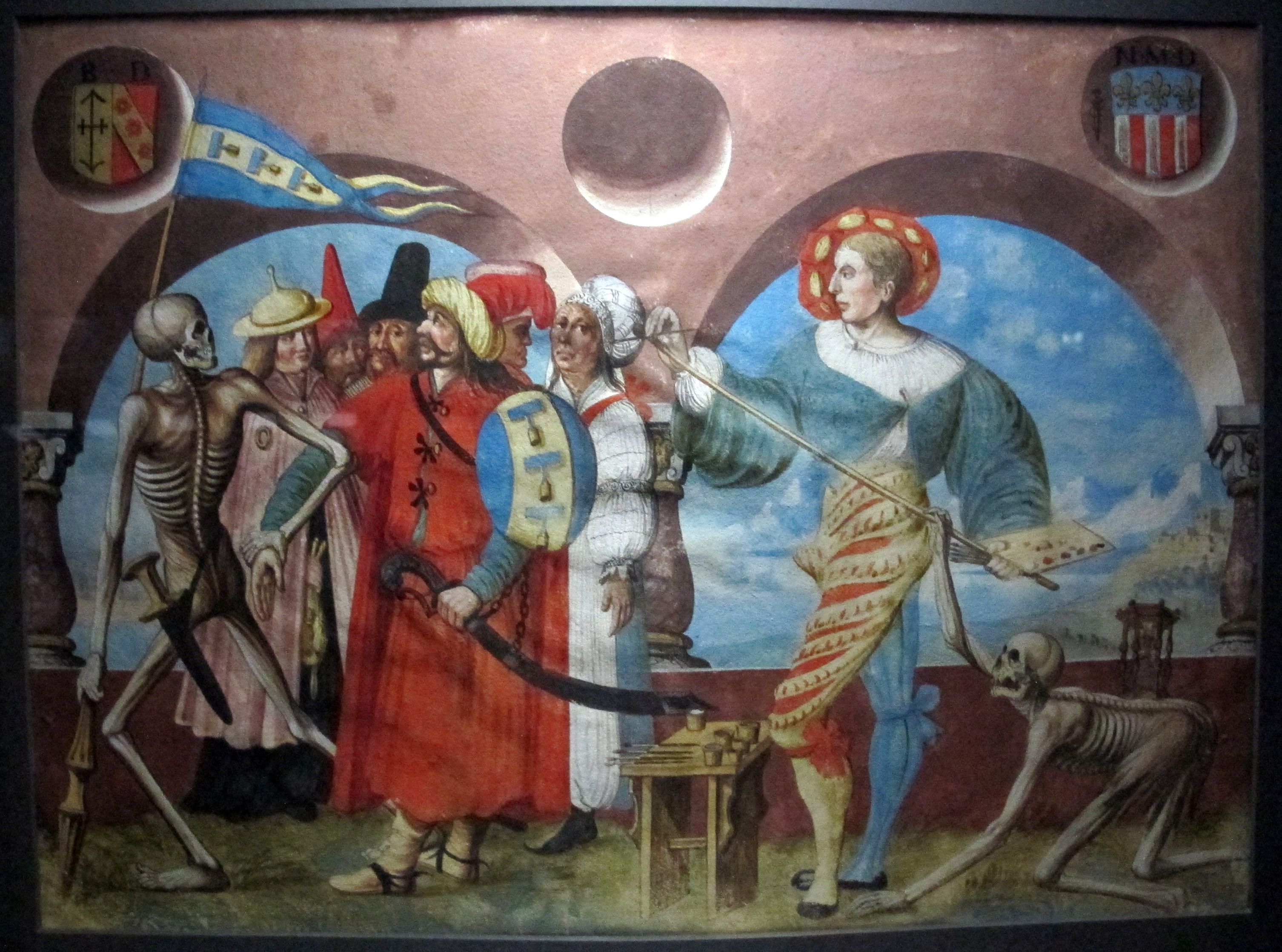 Copy of the Danse Macabre of the Dominican cemetery of Bern